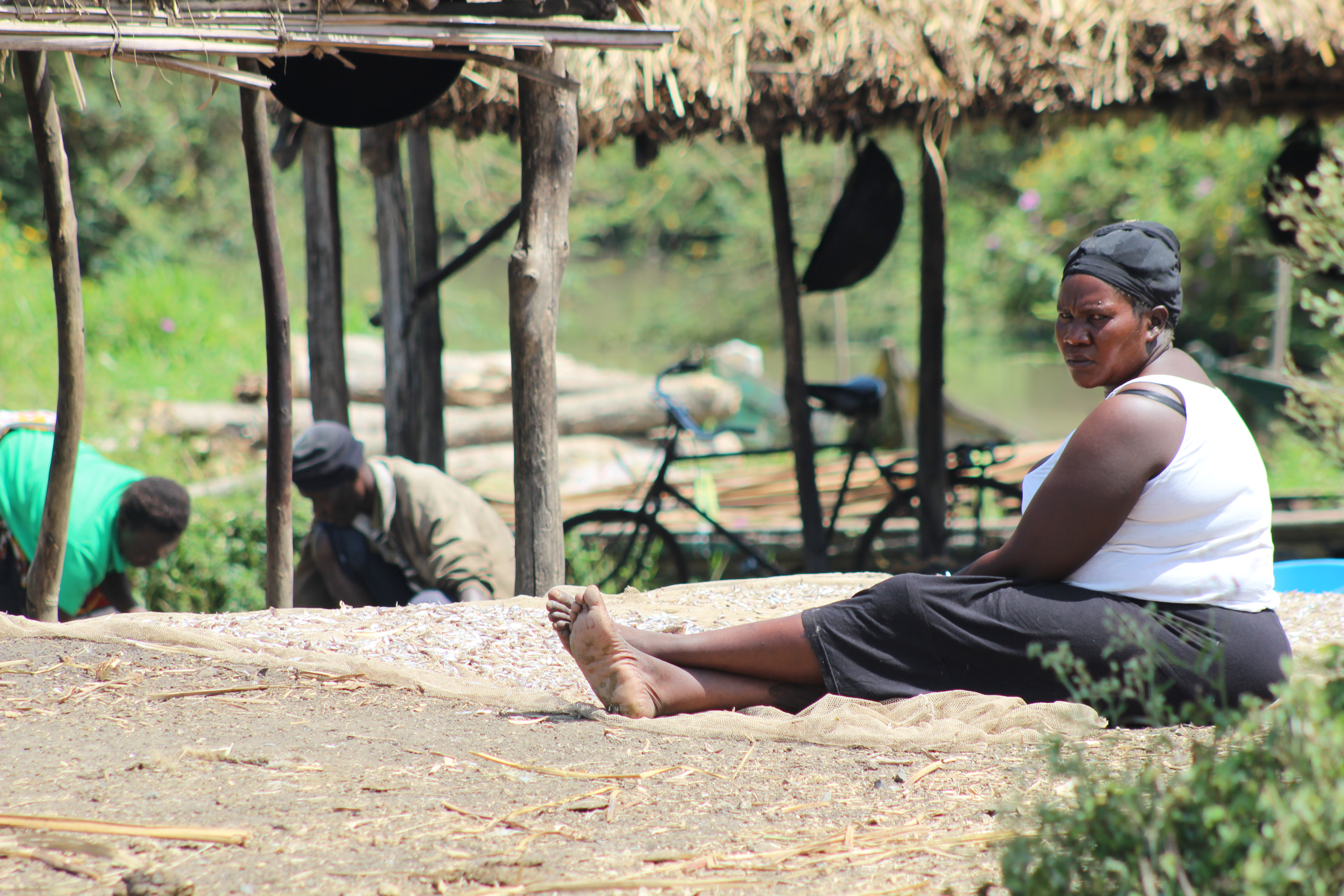 A woman sits on the sun next to her fingerlings as she watches over the birds and awaits buyers to the delicious omena at the shires of a river in Kano Kisumu This is an image of "African people at work" from Kenya